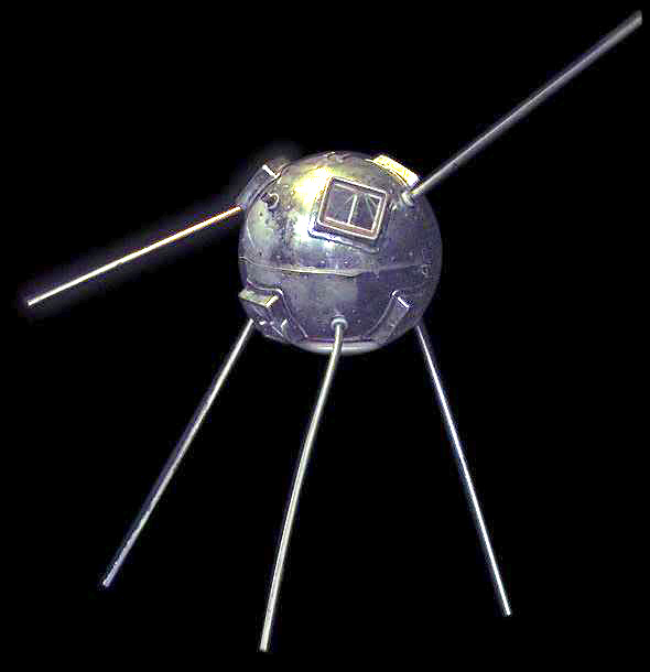 Vanguard TV3